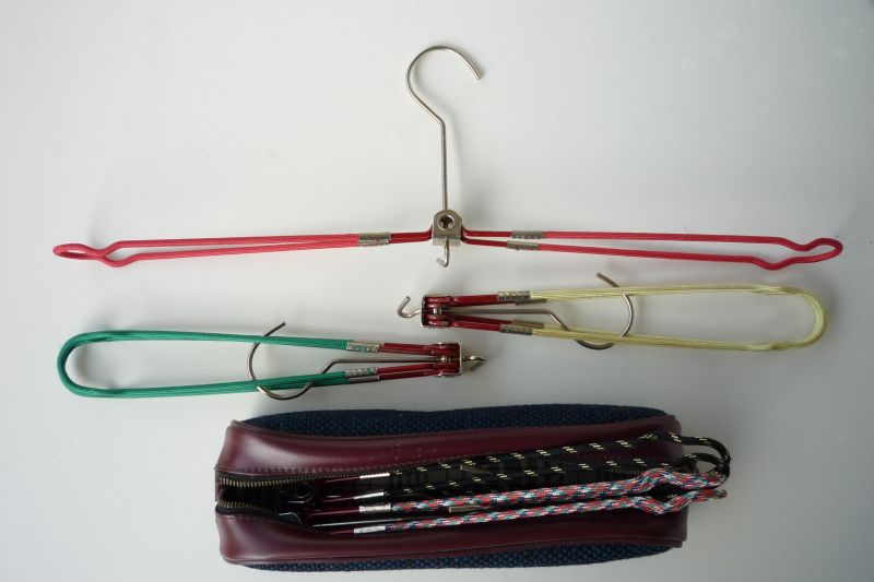 Foldable clothes hanger with sheath, about 1960